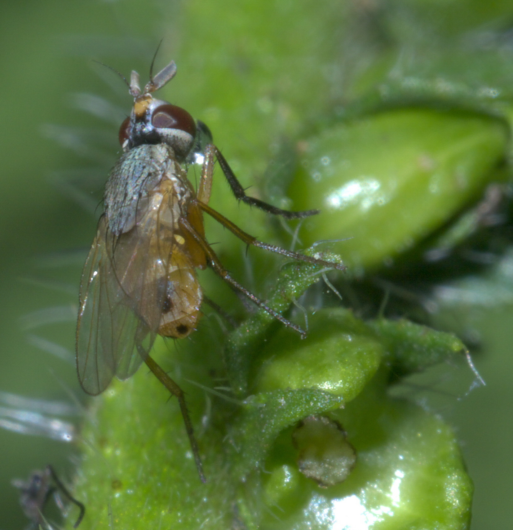 Atherigona reversura, bermudagrass stem maggot, recent introduction from Asia, Size: about 3 mm, ID Confidence: 98